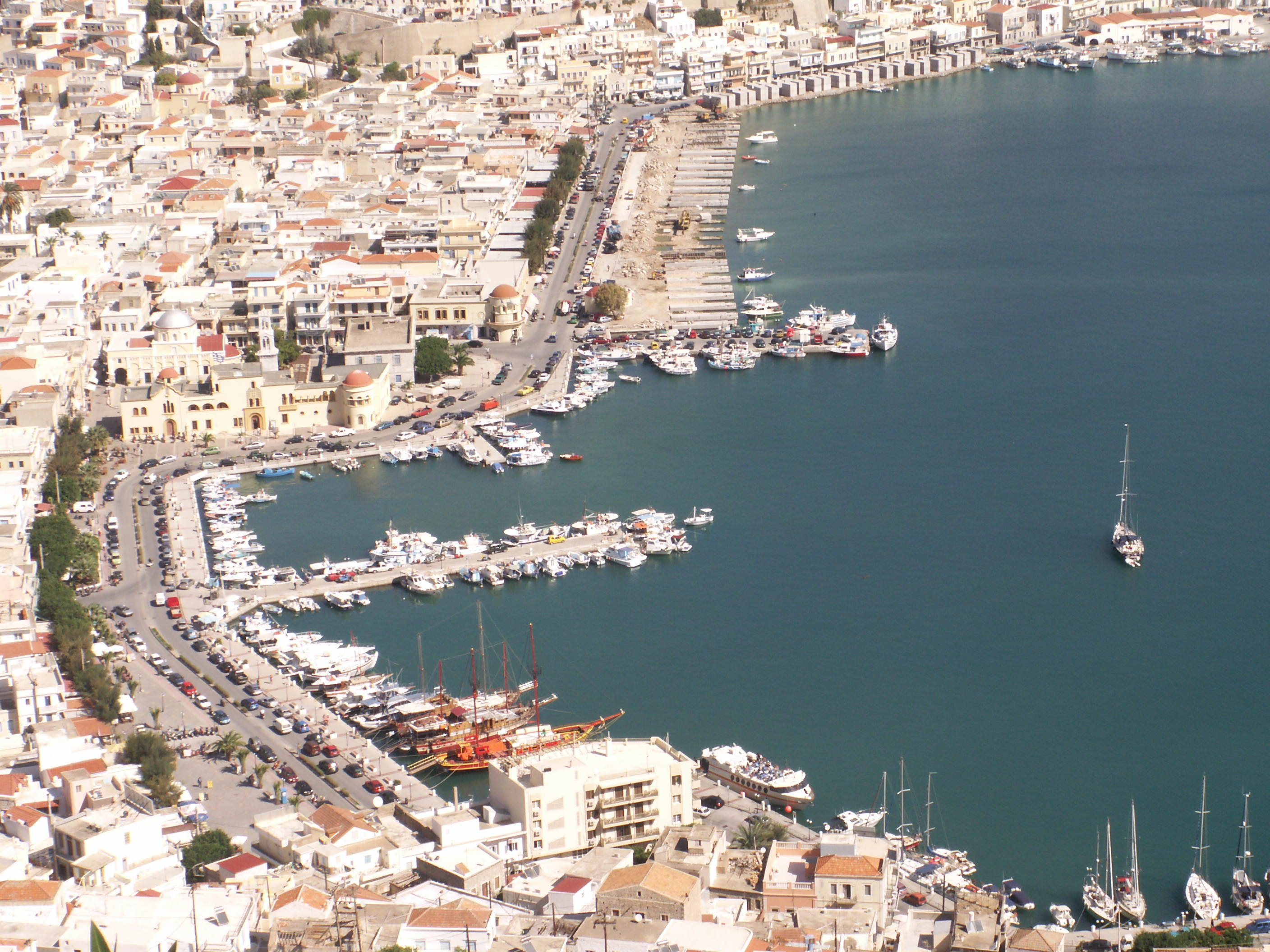 Pothia, Kalypnos, from above